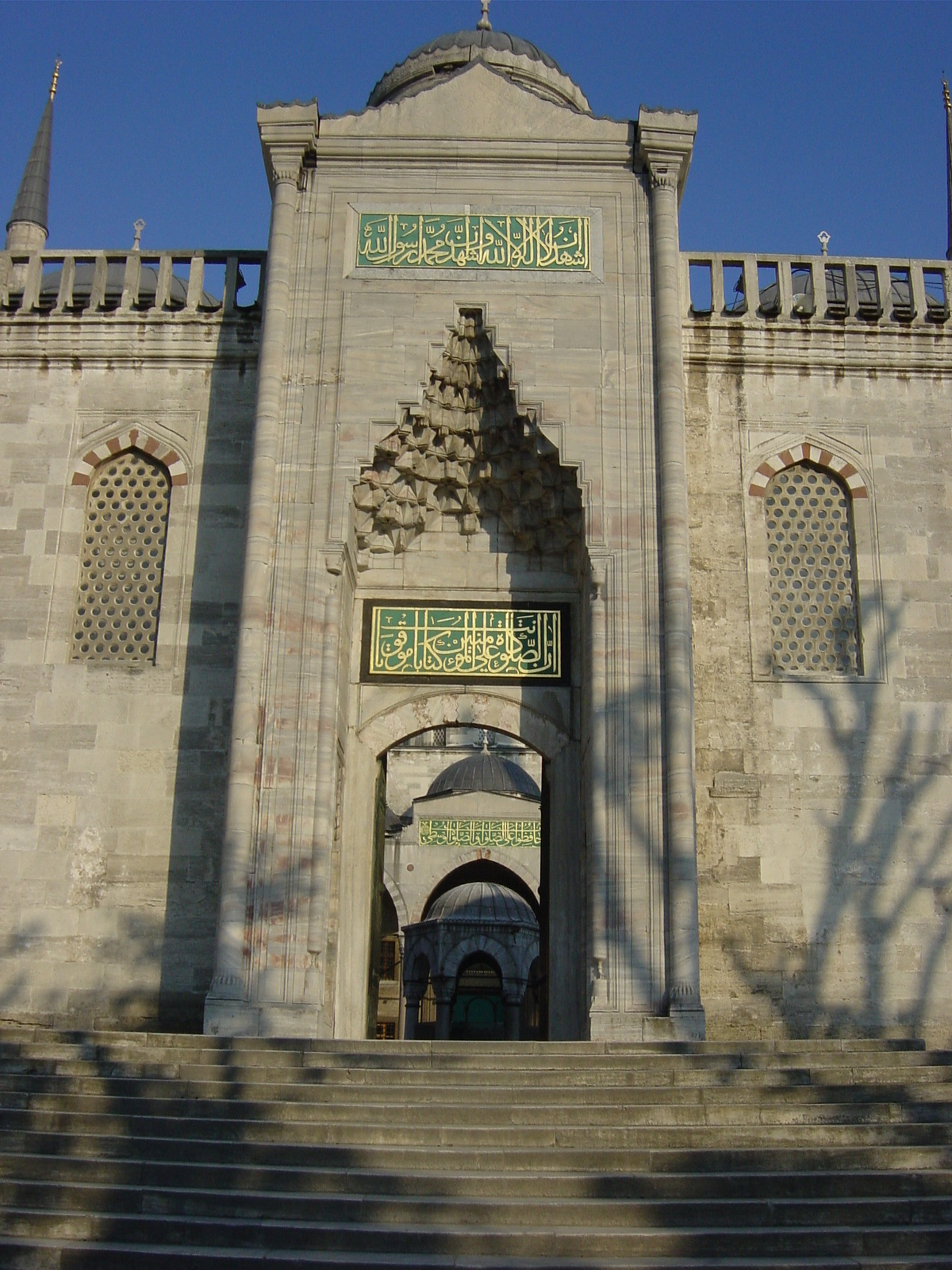 The Blue Mosque in Istanbul (Sultanahmet Mosque, in turkish: Sultanahmet Camii). Picture by: Giovanni Dall'Orto, May 29 2006.